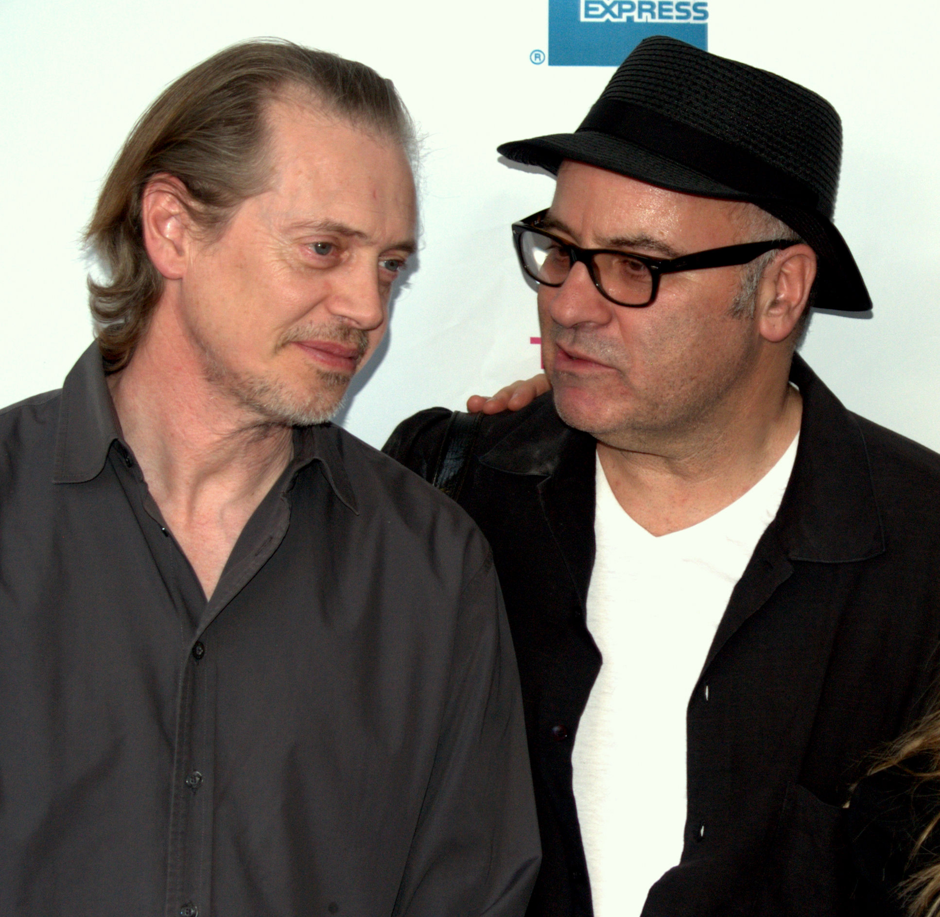 Steve Buscemi and Amos Poe at the 2009 Tribeca Film Festival.